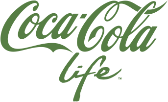 The logo of Coca-Cola Life